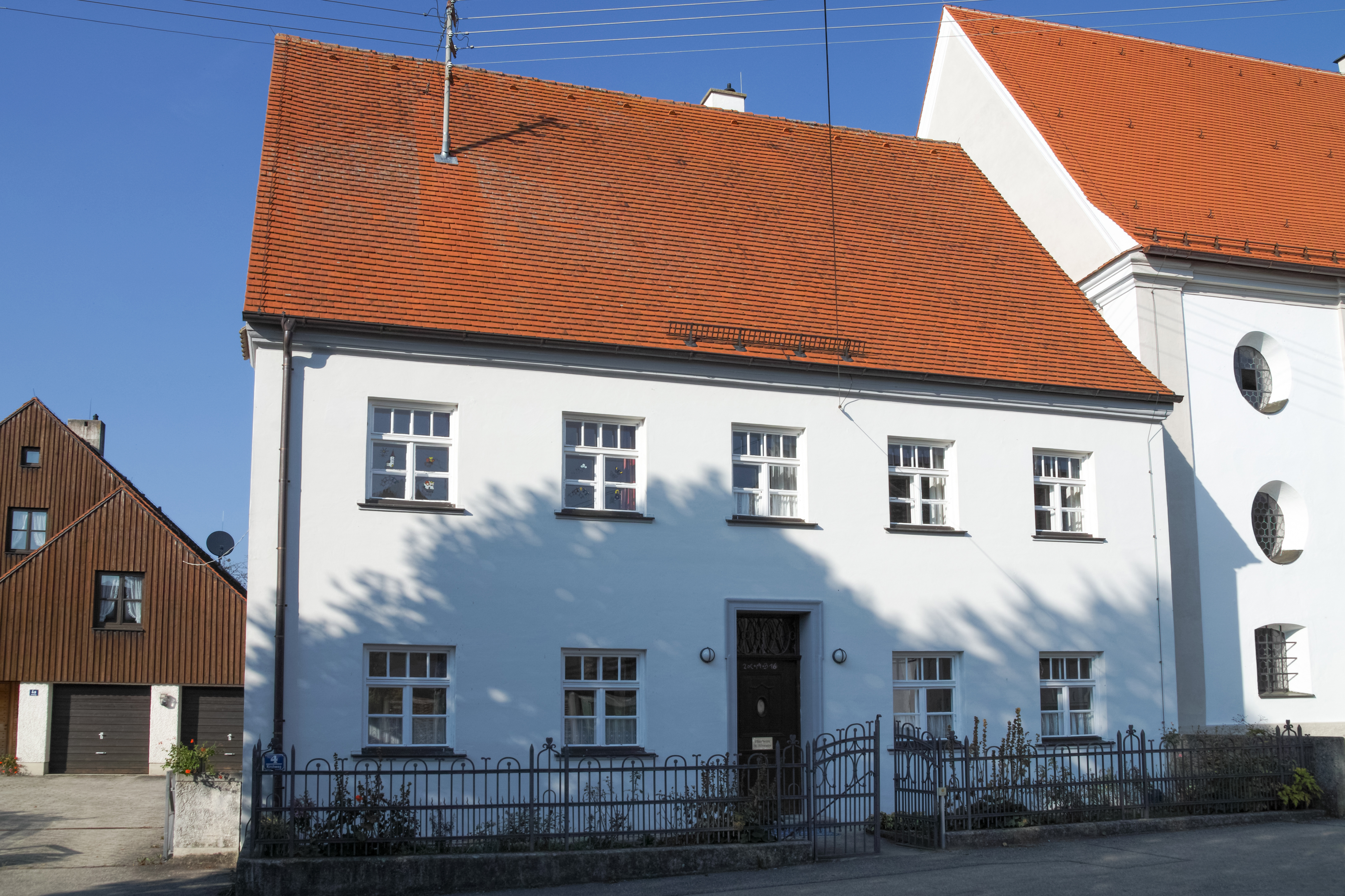 This is a photograph of an architectural monument.